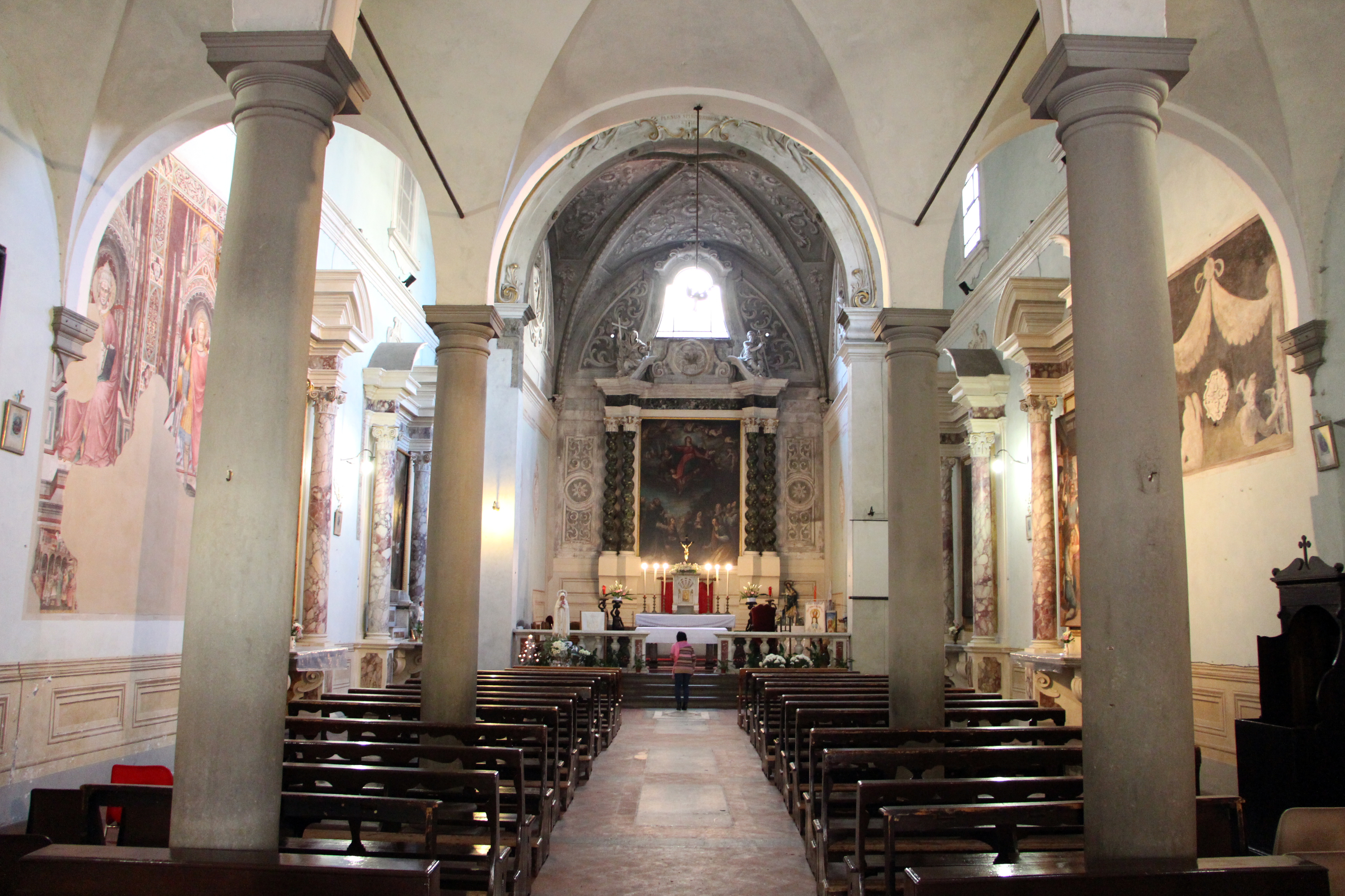 San Barnaba (Florence) - Interior